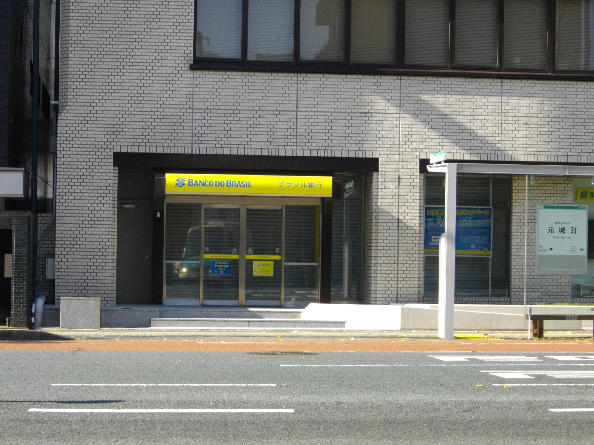 Banco do Brasil Hamamatsu Sub-Branch